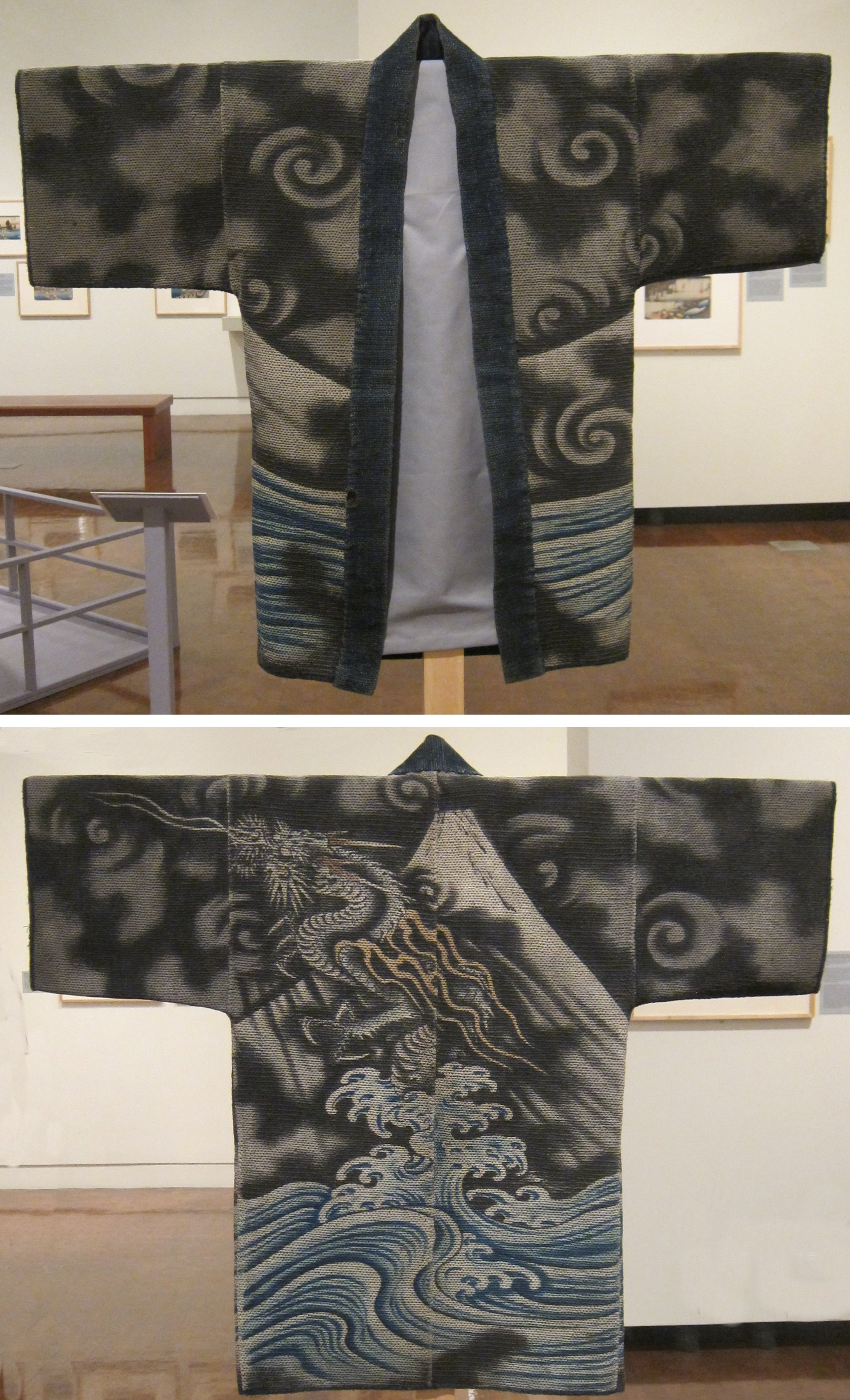 Hikeshi hanten (fireman’s jacket) from Japan, 19th century, cotton, plain weave, tsutsugaki (rice paste resist), hand painted, sashiko (running stitch), Honolulu Museum of Art